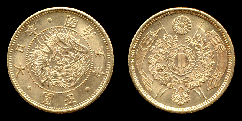 5yen-M5